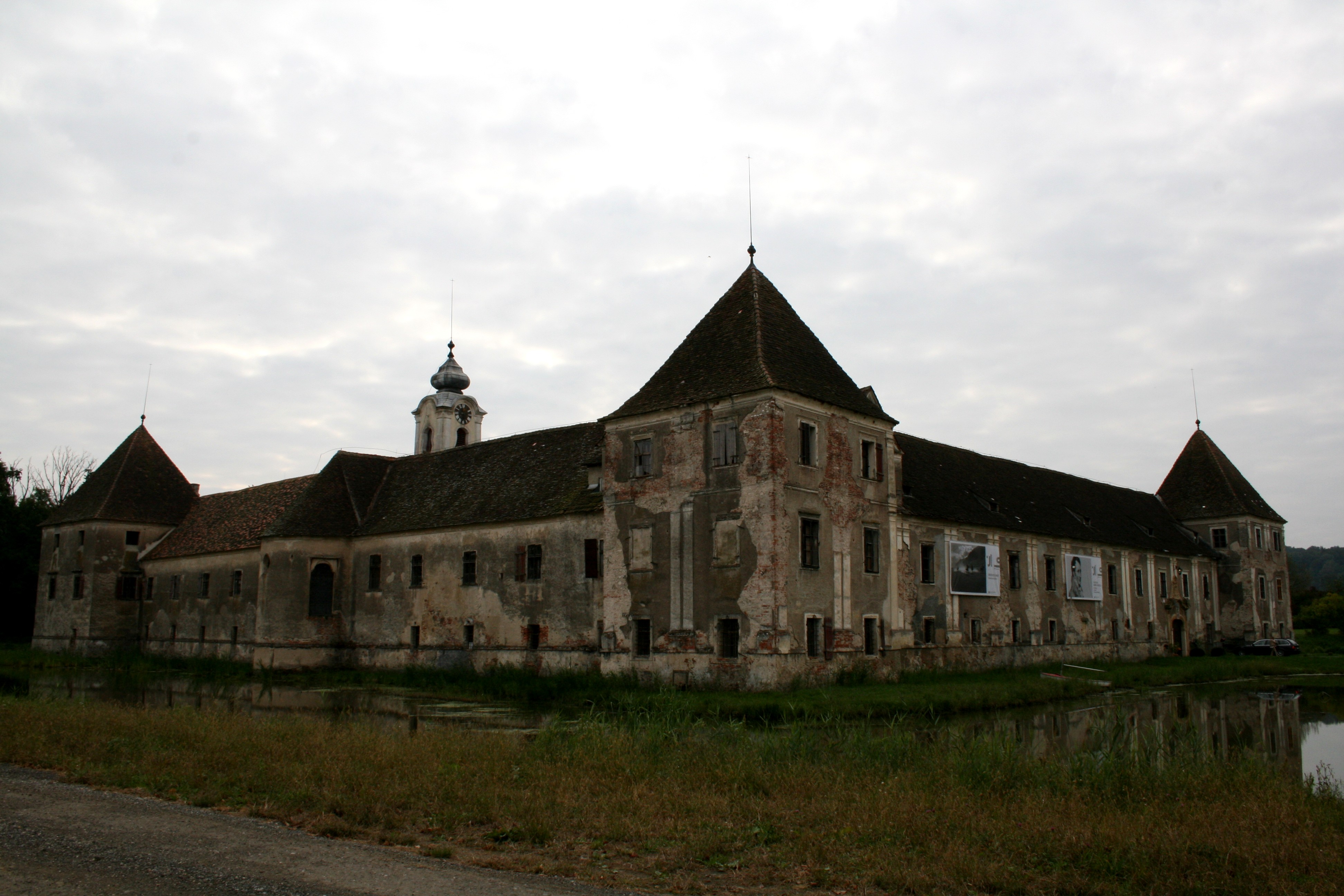 "Schloss Hainfeld" (Hainfeld castle) in Leitersdorf an der Raab, Styria, Austria, Europe